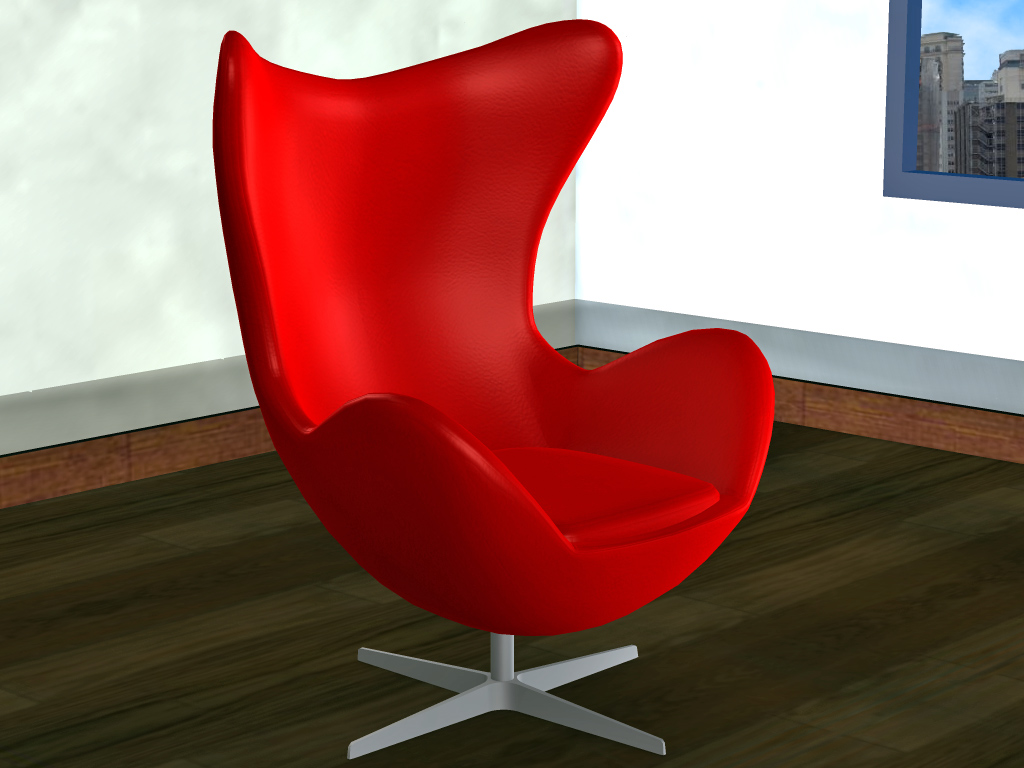 Egg chair rendered in Poser 7 and edited in Photoshop. Designed 1958 for The Sasa Royal Hotel in Copenhagen by Arne Jacobsen.